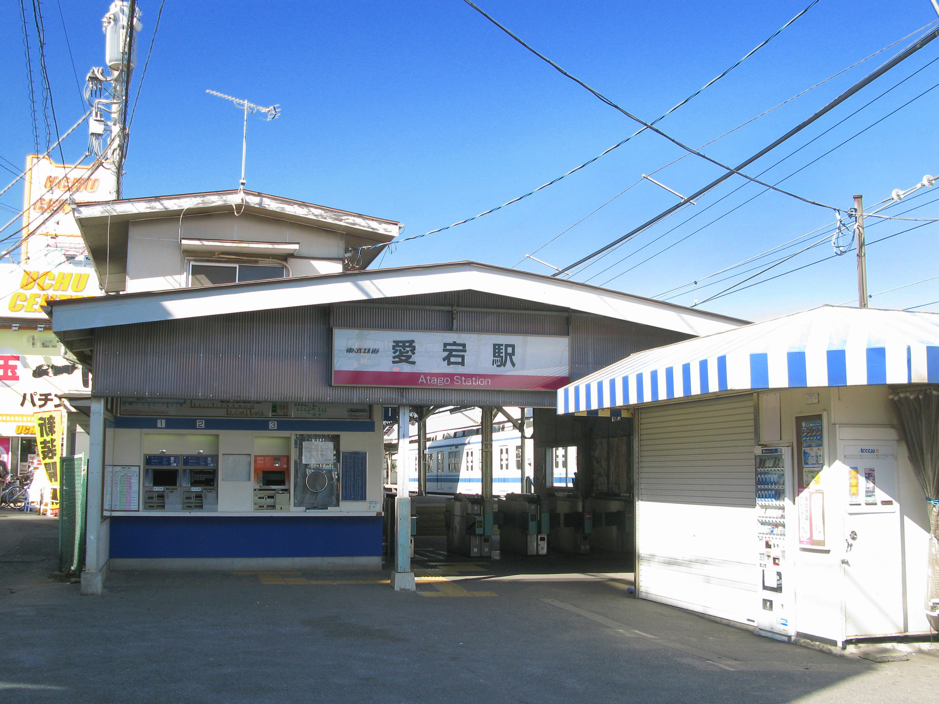 The entrance to Atago Station on the Tobu Noda Line in Noda, Chiba Prefecture, Japan